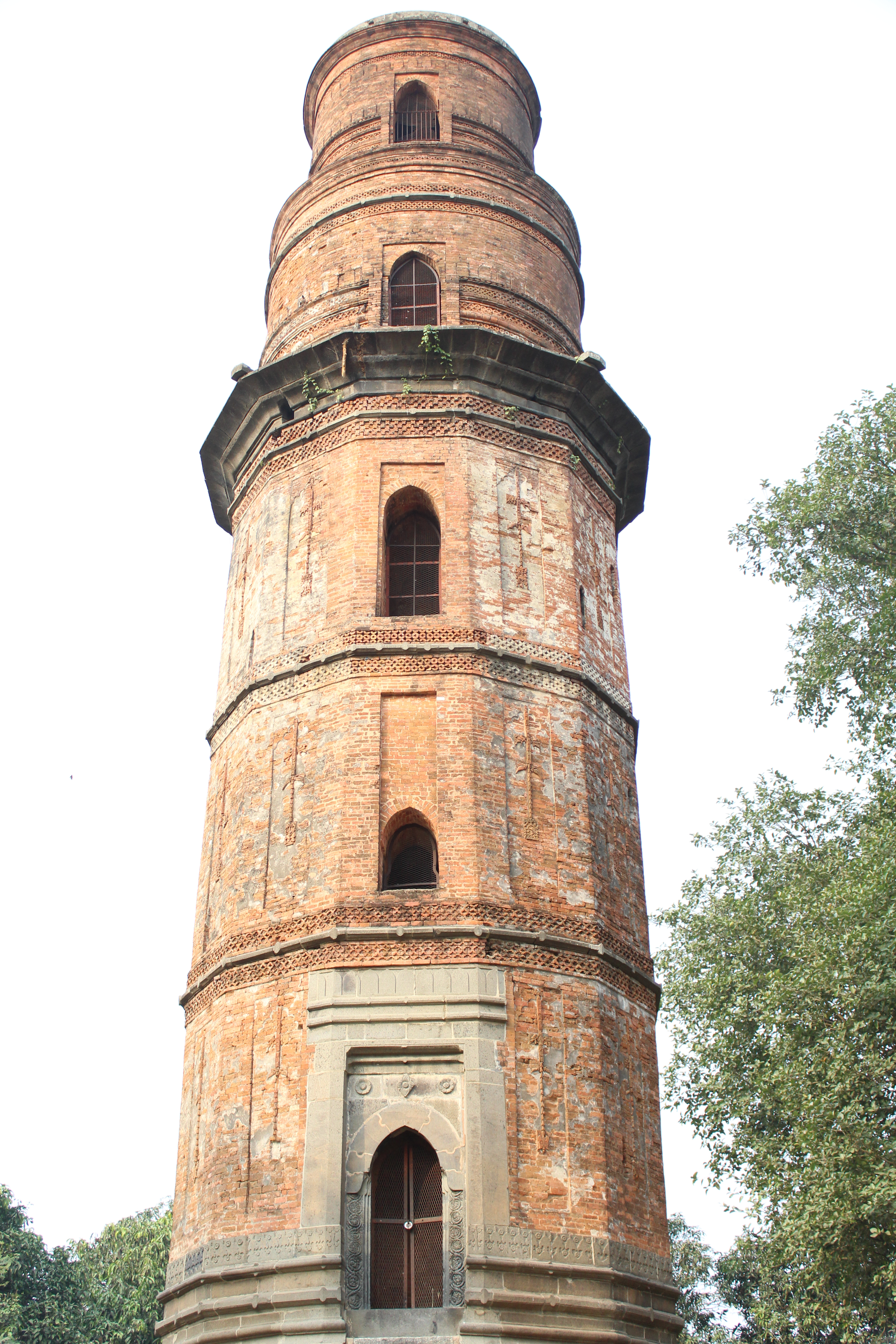 On 1468 AD Sultan Saifuddin Firuz Shah Built The Tower. The Hight Of The Tower Is 26 meters or 85 ft.